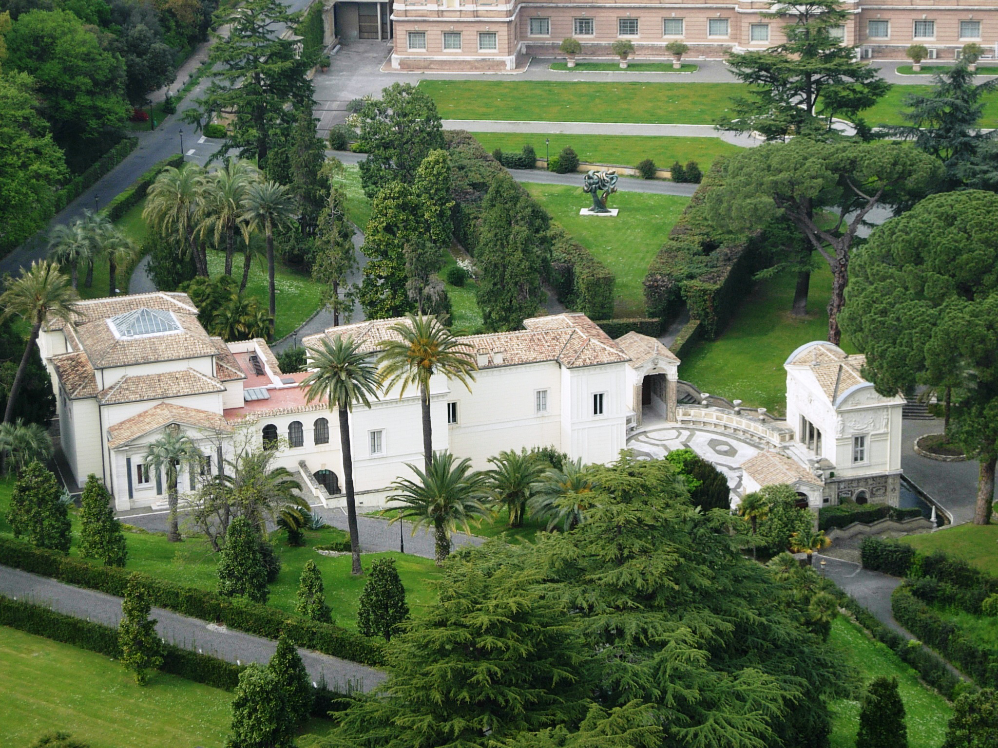 11277-Vatican-FromTheDome